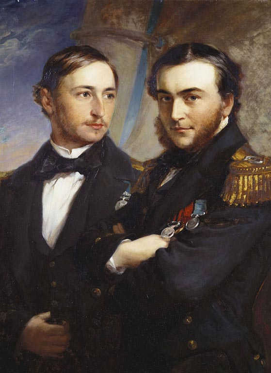 Ernst Leopold, 4th Prince of Leiningen (1830–1904) and Prince Victor of Hohenlohe-Langenburg (1833–1891)